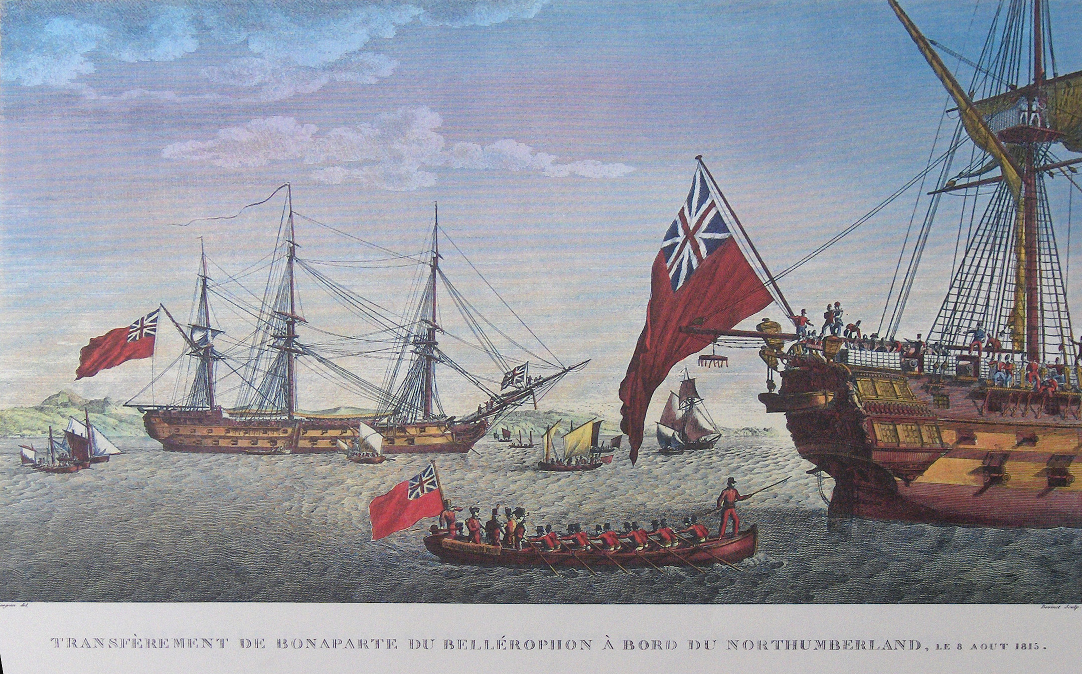 "Transport of Napoleon from the Bellerophon to the Northumberland" colored litho by Antoine Charles Horace Vernet (called Carle Vernet)(1758 - 1836) and Jacques François Swebach (1769-1823)